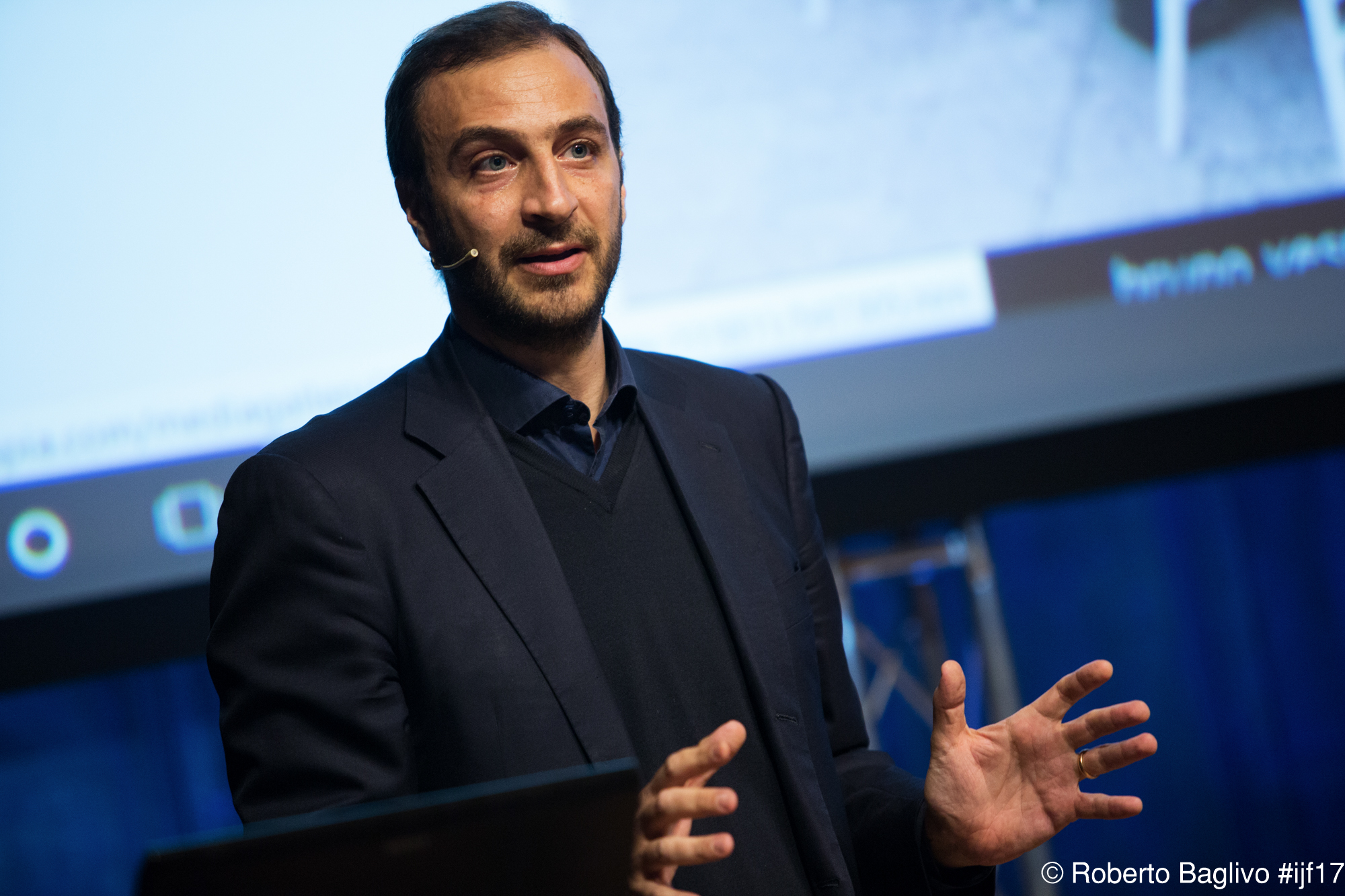 Emiliano Fittipaldi at International Journalism Festival 2017